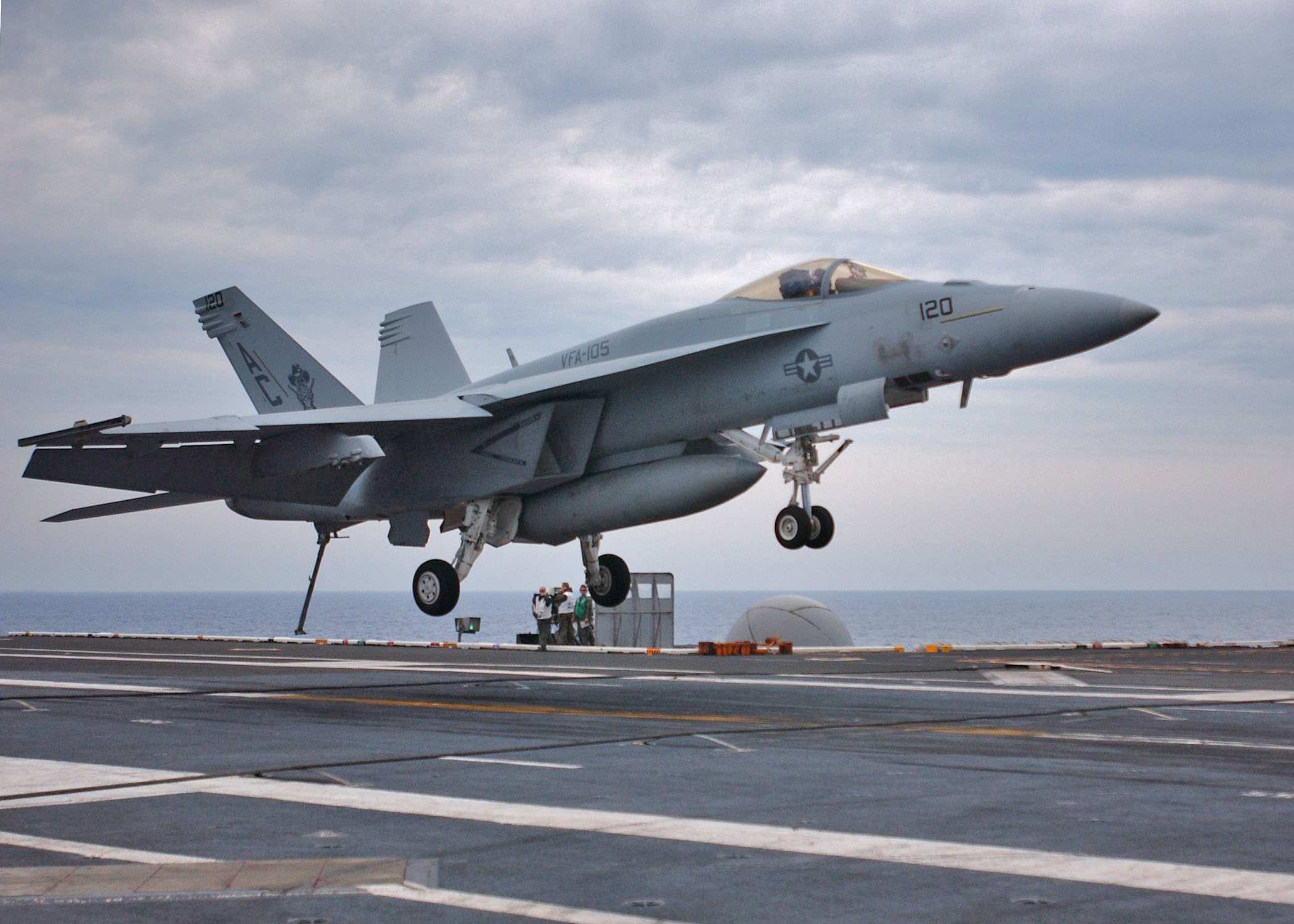 060425-N-6410T-002 Atlantic Ocean (April 24, 2006) - An F/A-18E Super Hornet assigned to the "Gunslingers" of Strike Fighter Squadron One Zero Five (VFA-105) makes an arrested landing on the flight deck aboard the Nimitz-class aircraft carrier USS Theodore Roosevelt (CVN 71). Roosevelt is underway conducting carrier qualifications (CQ) in support of the fleet response plan. U.S. Navy photo by Photographer's Mate 3rd Class Chris Thamann (RELEASED)